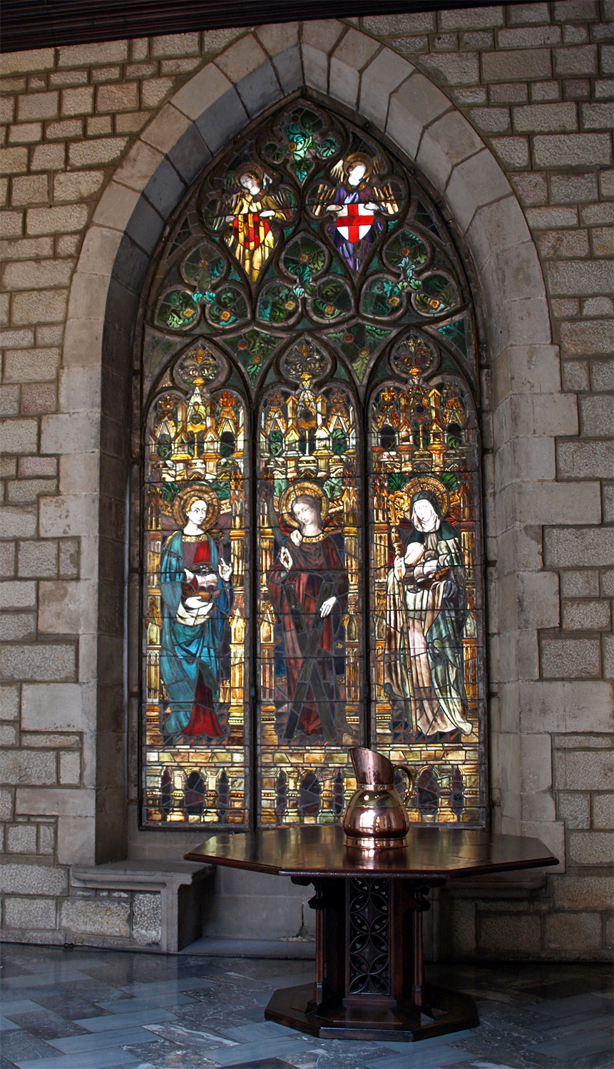 Barcelona. City Hall. Stained glass window, by Rigalt, at the Gothic gallery. At the center, Saint Eulàlia. At the left, Saint Madrona. At the right, Saint Maria de Cervelló